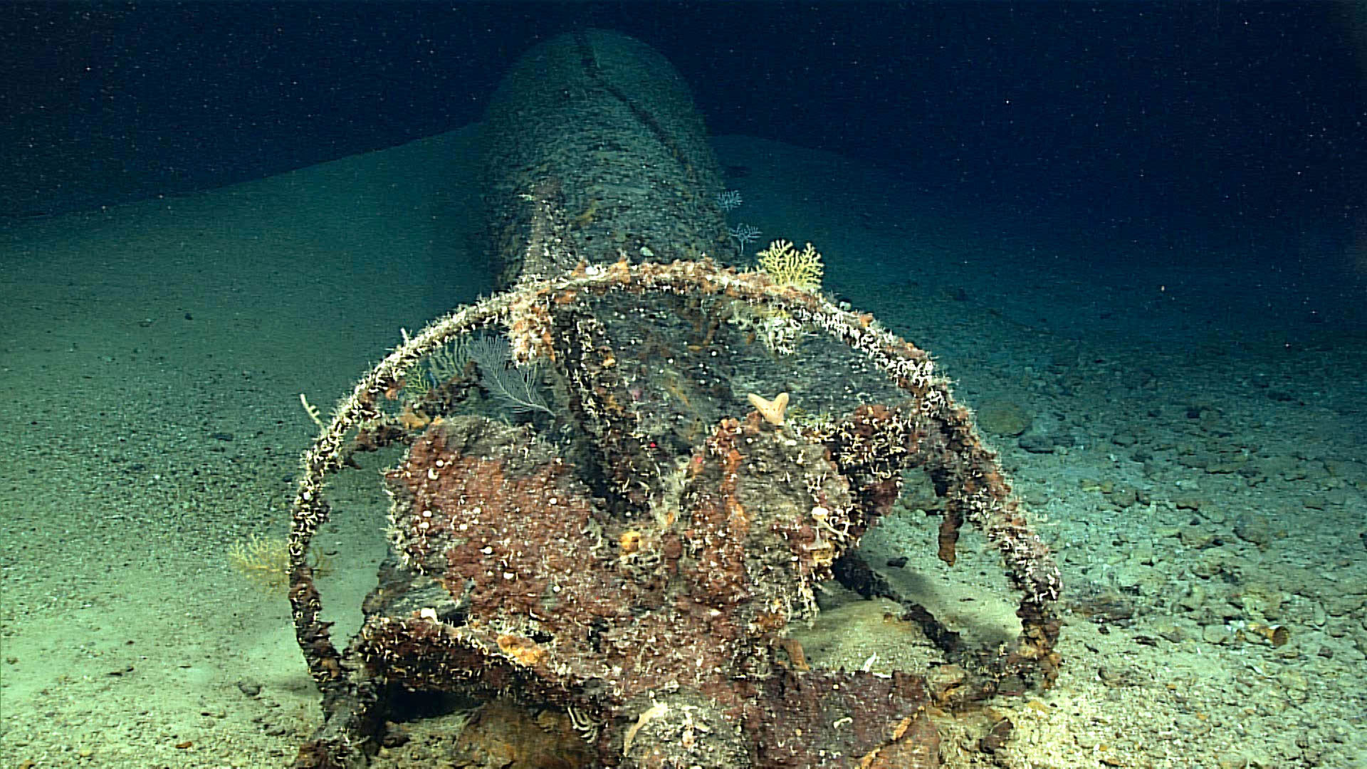 Underwater image of the Japanese mini sub involved in the attack on Pearl Harbor sunk off the south shore of Oahu.